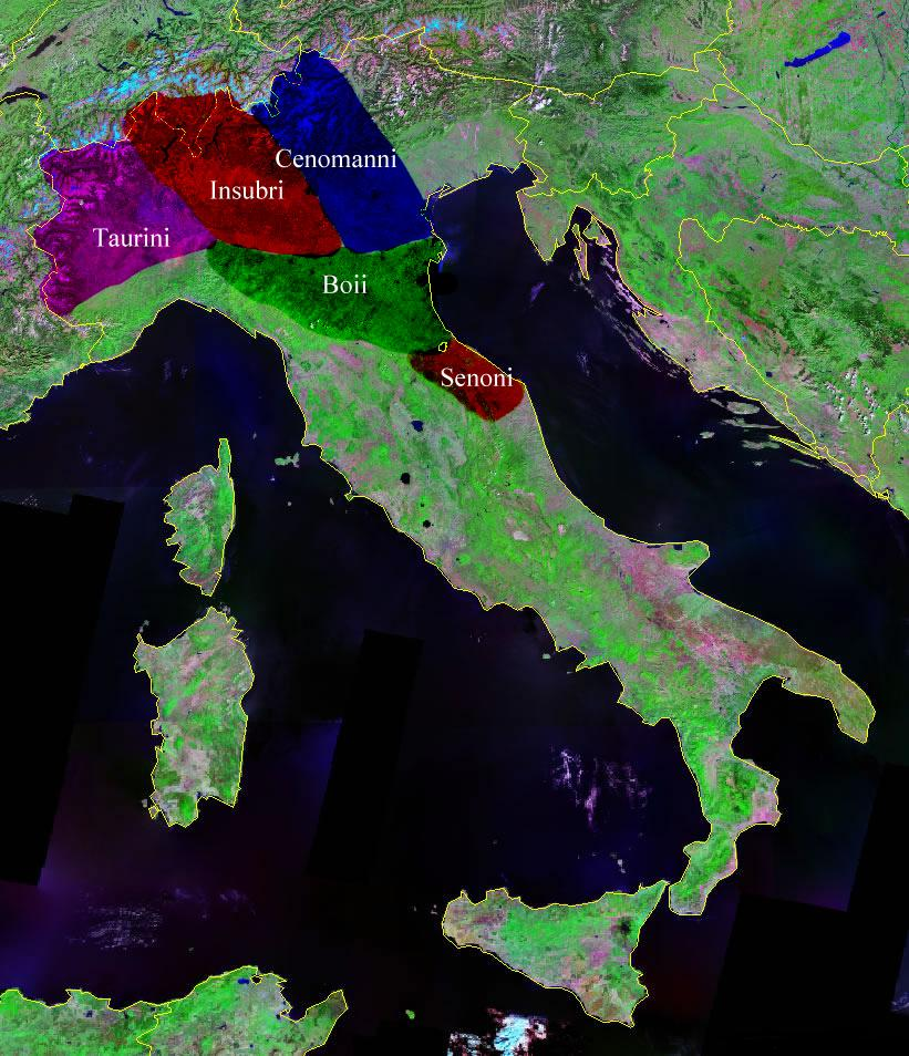 Distribution of the Celtic peoples settled in Italy